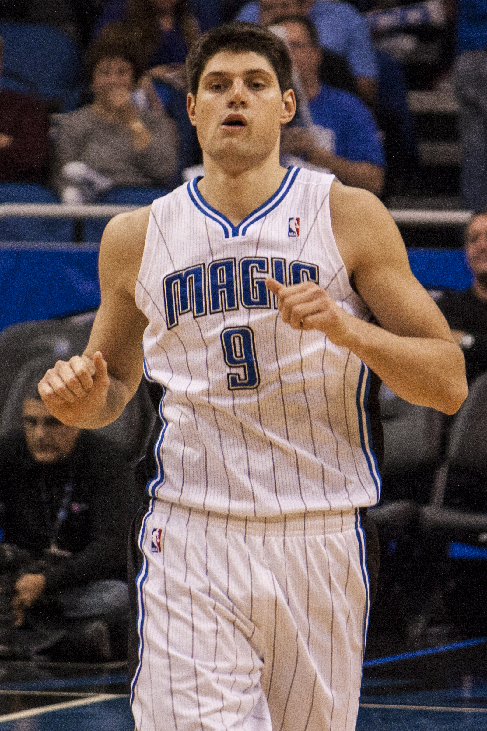 Nikola Vučević with the Orlando Magic